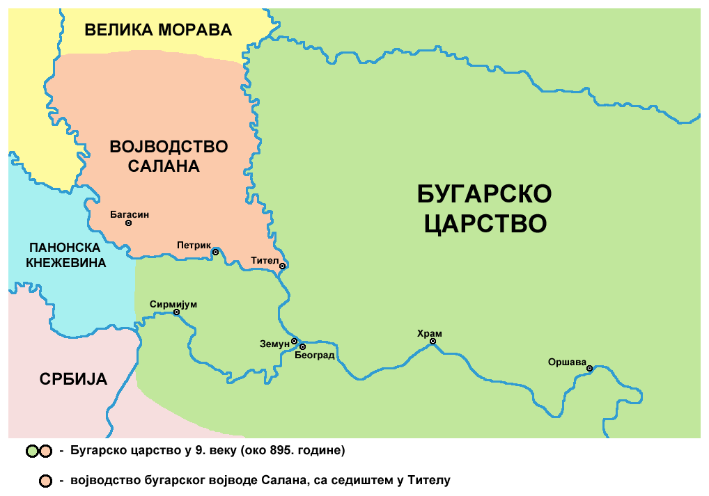 historical map of medieval duchy of Bulgarian duke Salan (9th century) - Serbian language version